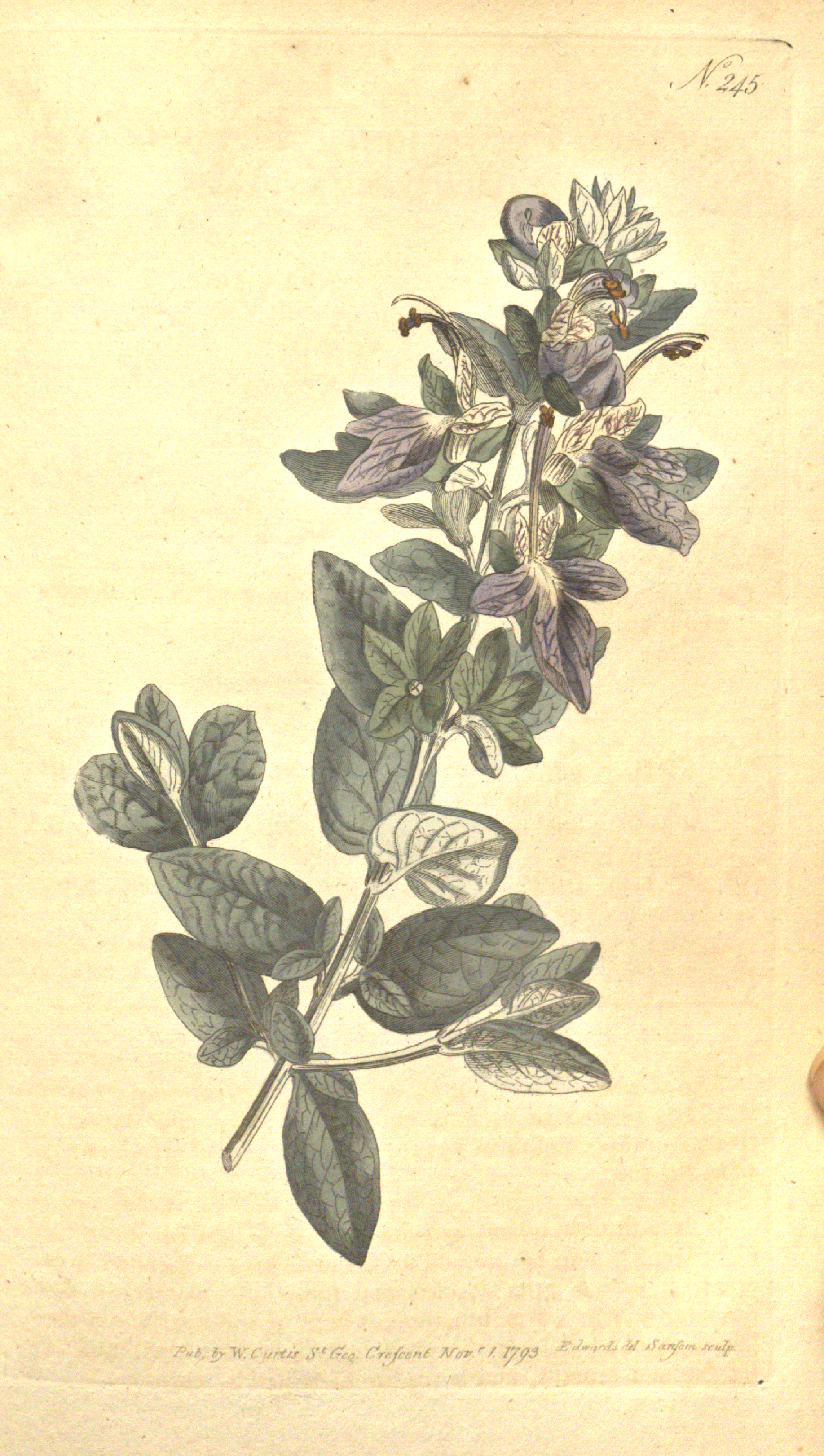 This is a plate from The Botanical Magazine, Volume 7.